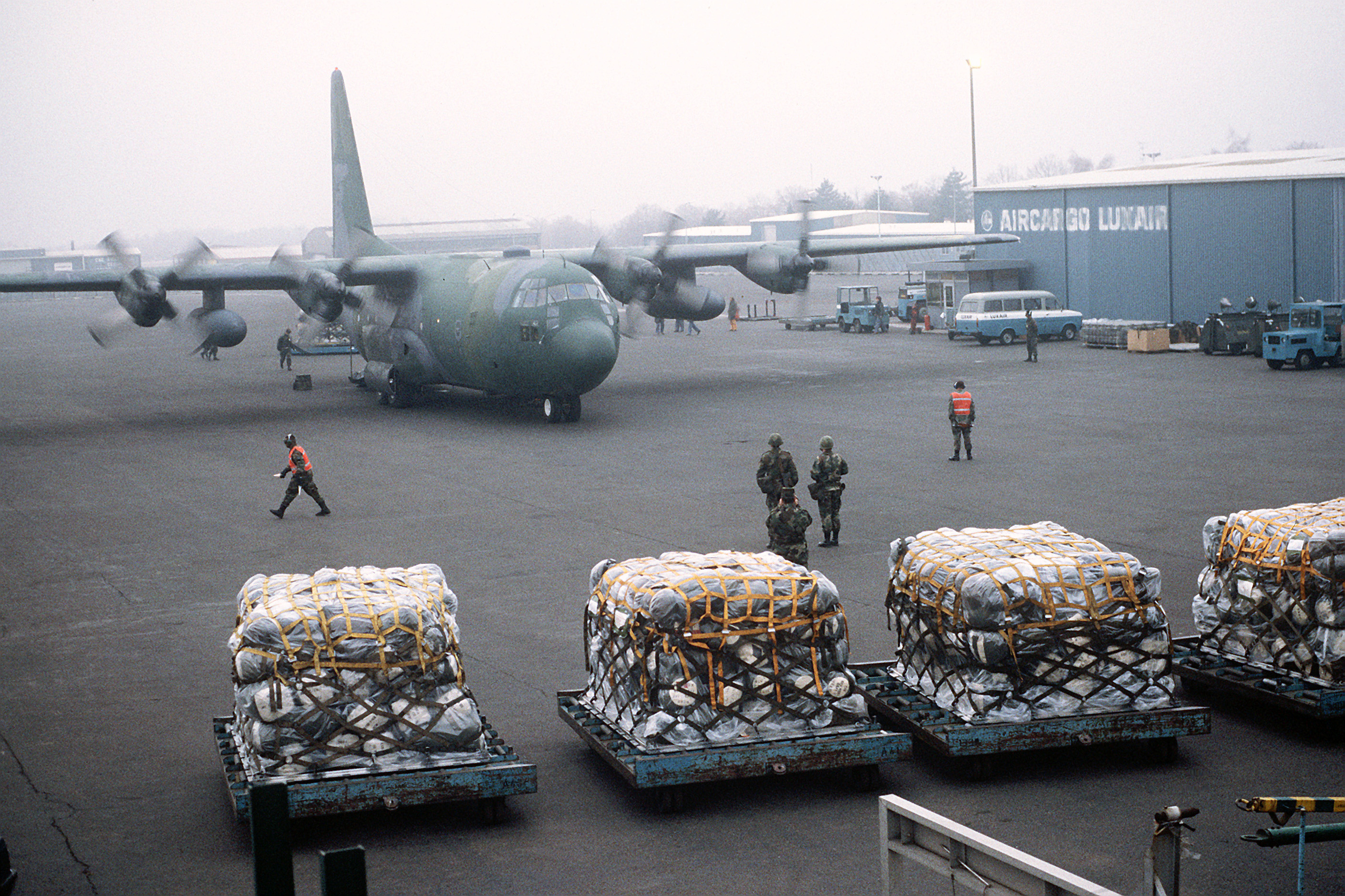 Pallets of cargo await loading aboard a 435th Tactical Airlift Wing C-130E Hercules aircraft at Luxembourg International Airport in preparation for transportation to West Germany during Exercise Reforger '90. The plane will be loaded while its engines continue to run (engine running onload), a process which promotes rapid deployment of cargo and personnel.